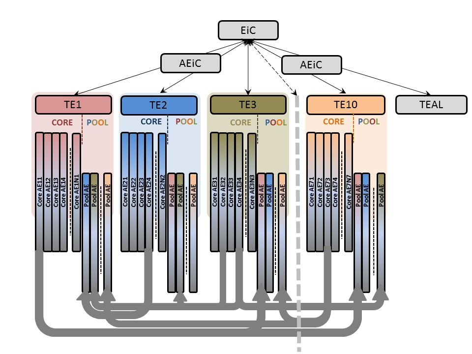 Editorial Board structure of IEEE Sensors Journal (March 2017)